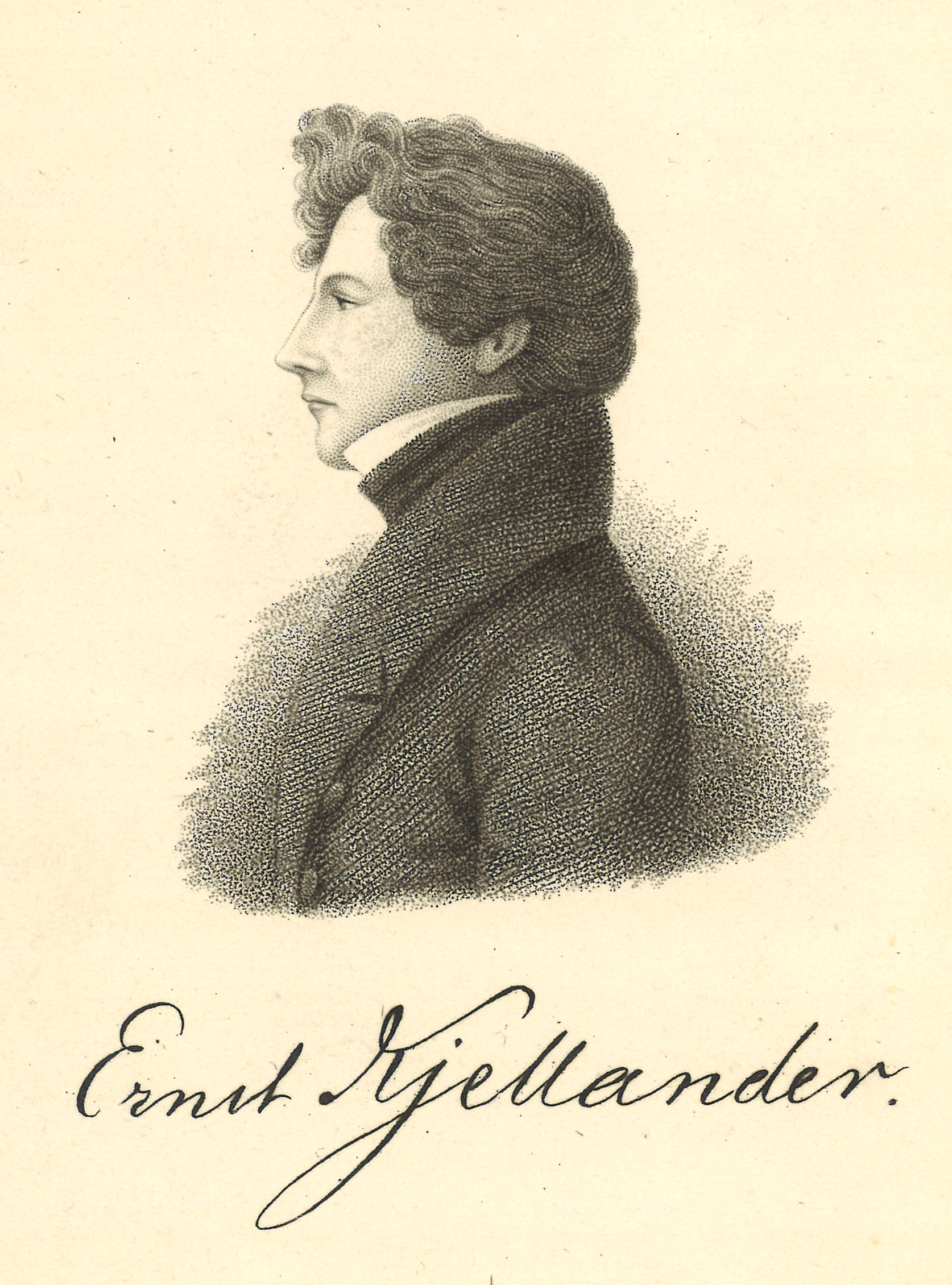 Ernst Kjellander (1812-1835), Swedish philosopher and poet.